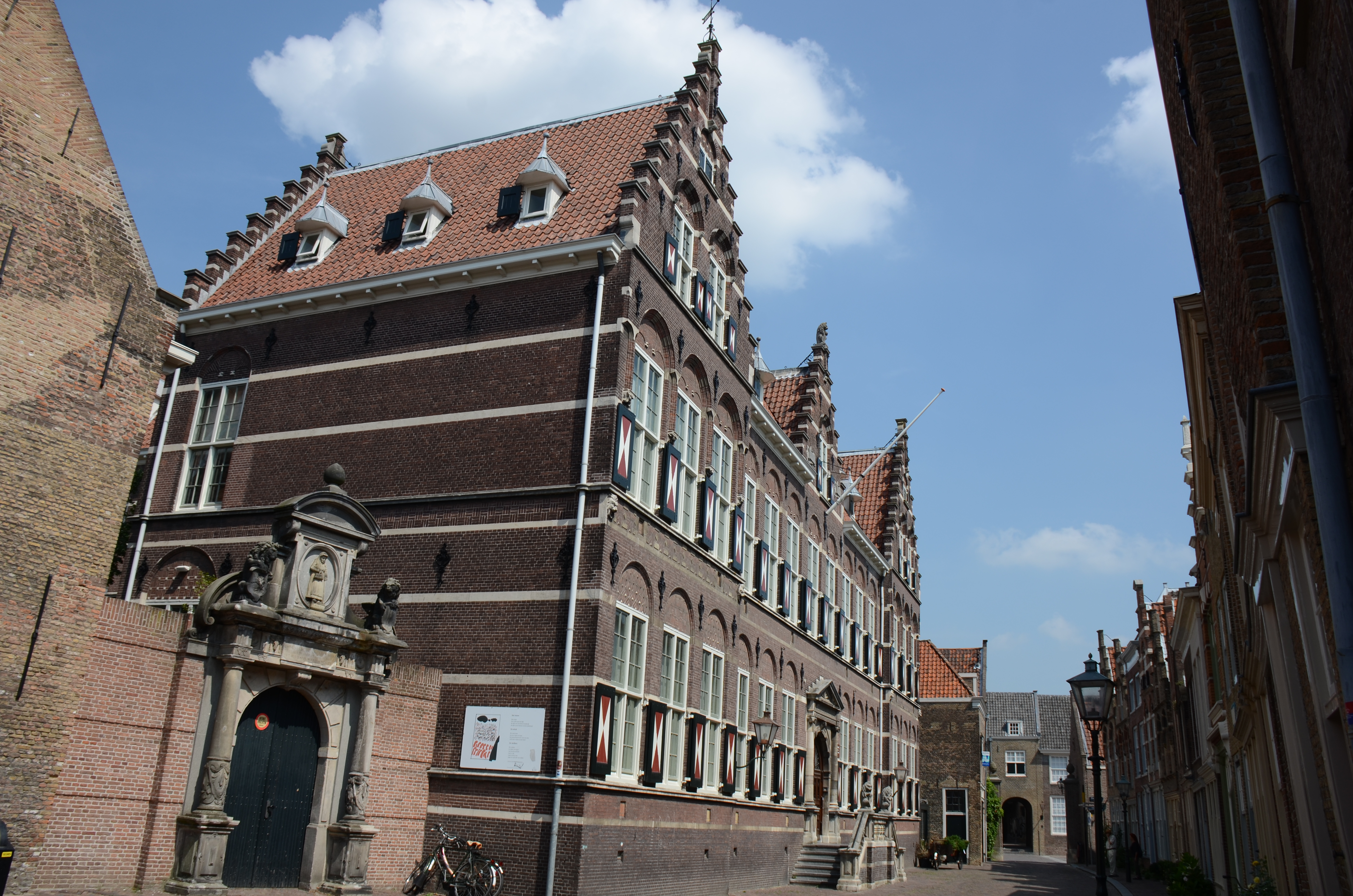 Highly decorated traditional (school) building at Dordrecht city